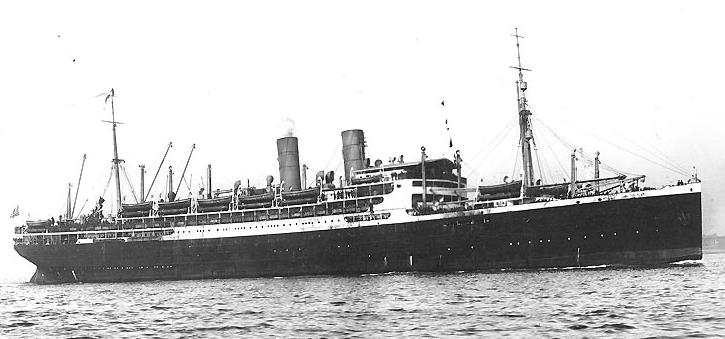 A cropped image a photograph of the USS Zeppelin while underway.